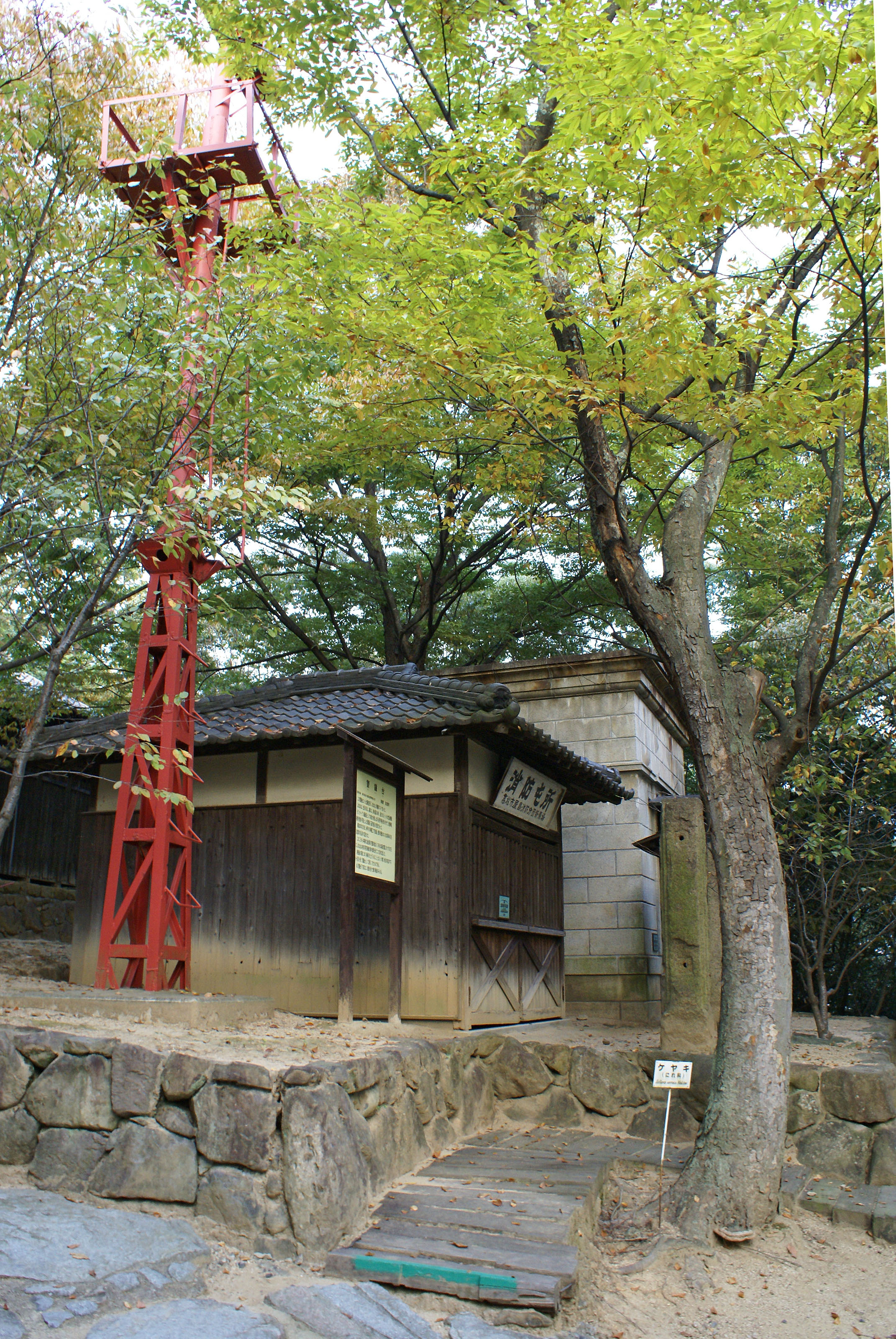 Shikokumura in Takamatsu Kagawa prefecture, Japan